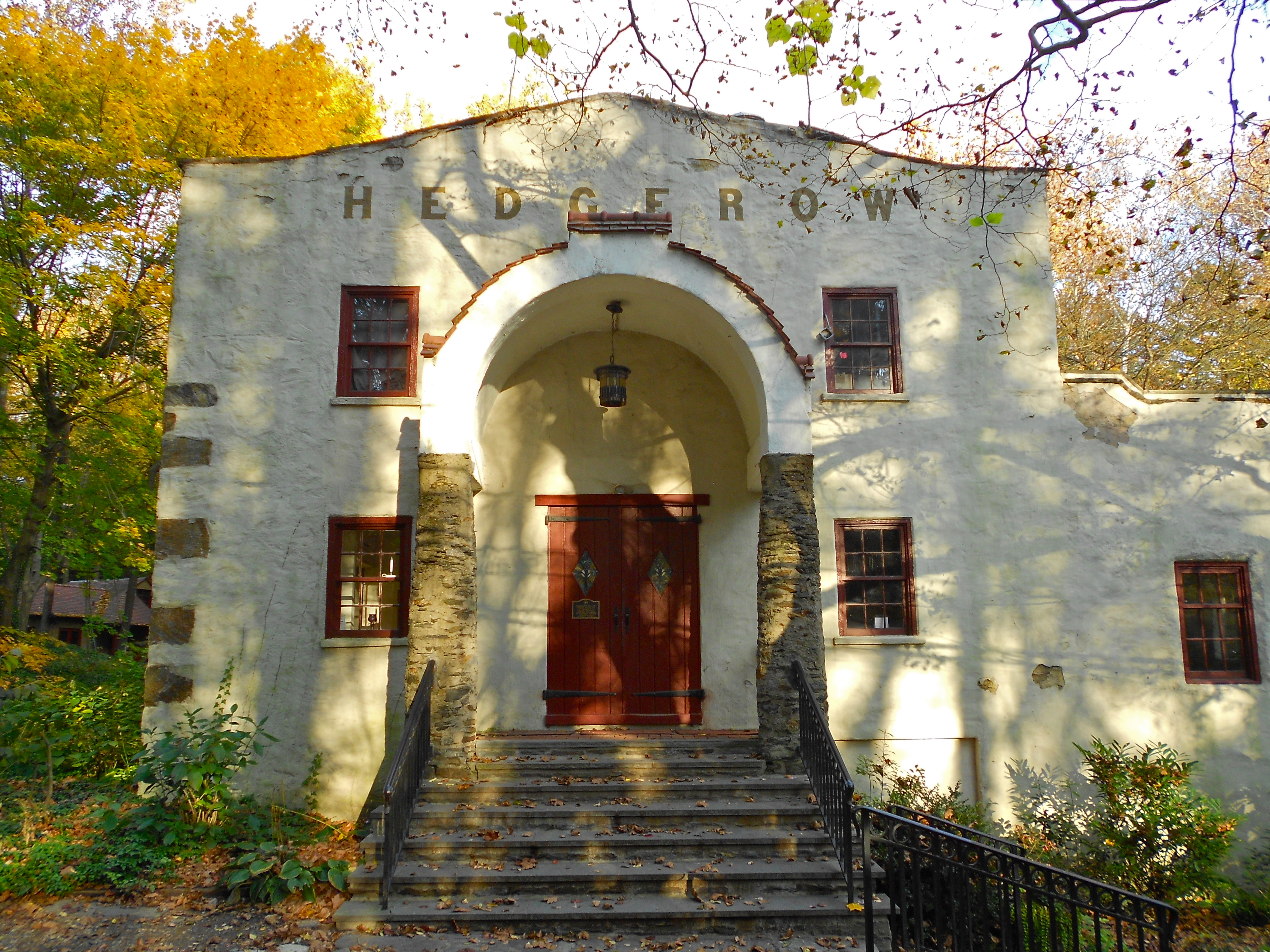 Building in Rose Valley, Pennsylvania a historic district listed on the NRHP in 2010 This is the Hedgerow Theatre